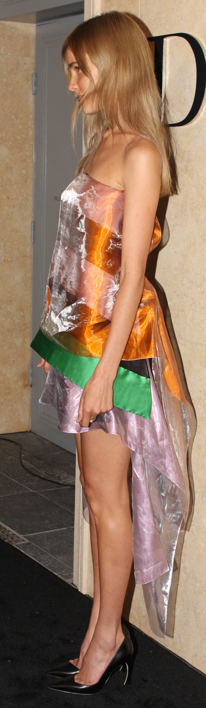 Australian actress Isabel Lucas at the Christian Dior Event, Sydney, 2013